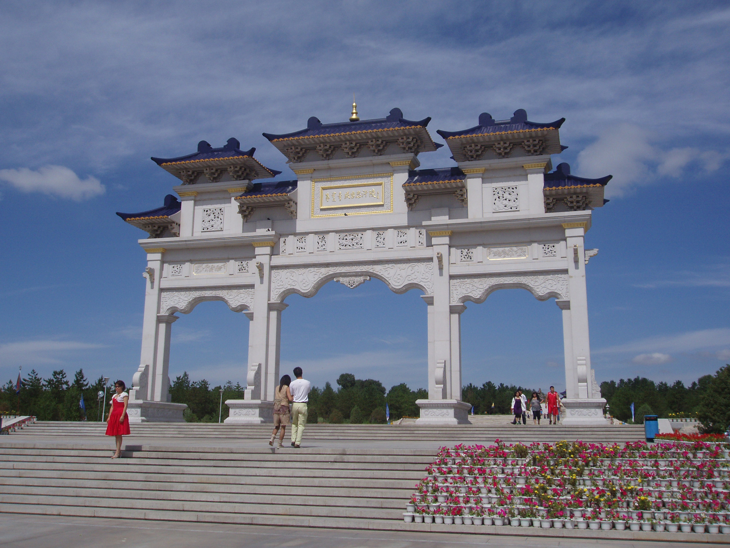 The Gate of Genghis Khan Mausoleum in Ordos, Inner Mongolia, China.